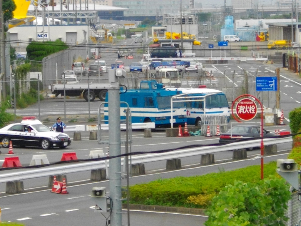 Police automobile around Narita International Airport